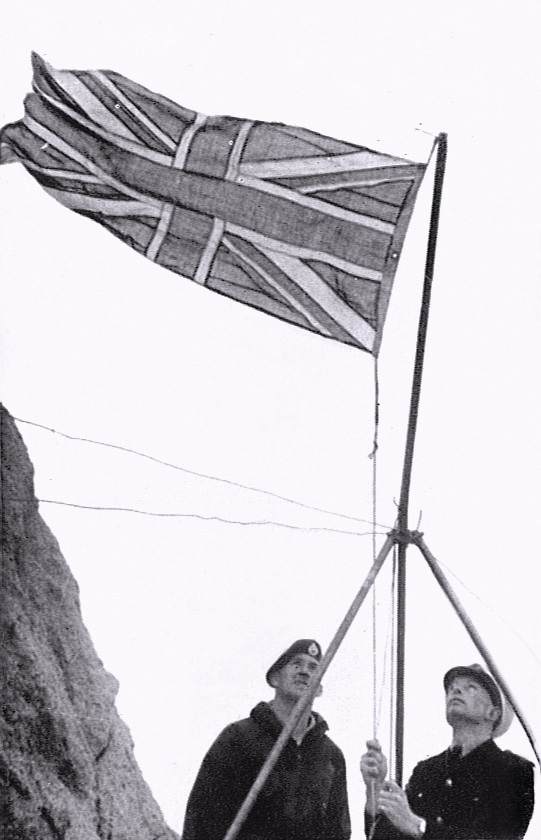 Lt. Cdr. Scott RN raises the Union Flag over Rockall on 18th September 1955, with the words, "In the name of Her Majesty Queen Elizabeth the Second, I hereby take posession of this Island of Rockall." To the left stands Royal Marine Commando Cpl. Alexander A. Fraser